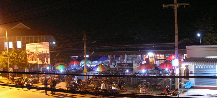 View of night market in Luang NamTha, Laos from 2nd floor of a building on the west side of the (main) street. Black lines running across the bottom of the photo are power lines on the near side of the street.